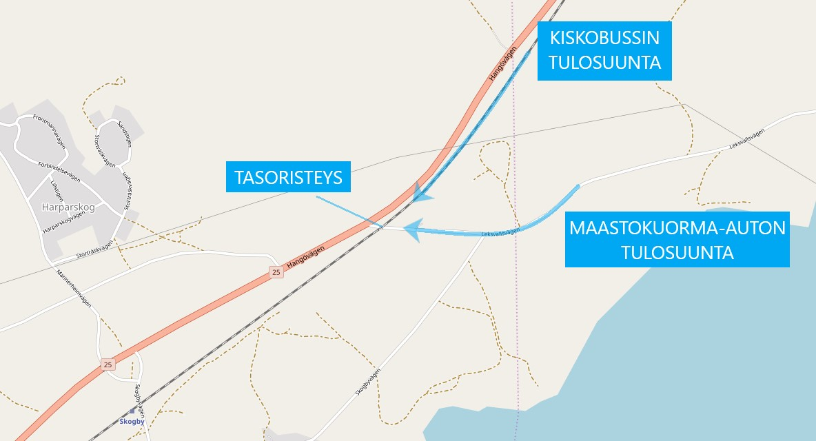 Map of the Raseborg grade crossing accident on 26 October 2017 This map of Raseborg, Finland was created from OpenStreetMap project data, collected by the community. This map may be incomplete, and may contain errors. Don't rely solely on it for navigation.